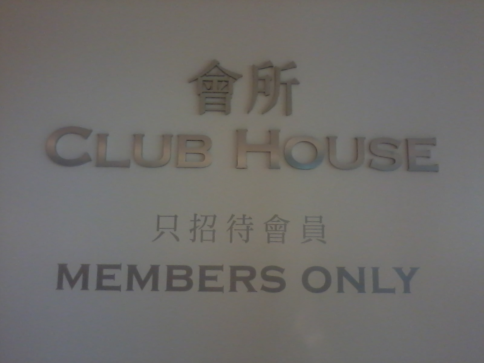 香港科學園, Hong Kong Science Park, Hong Kong